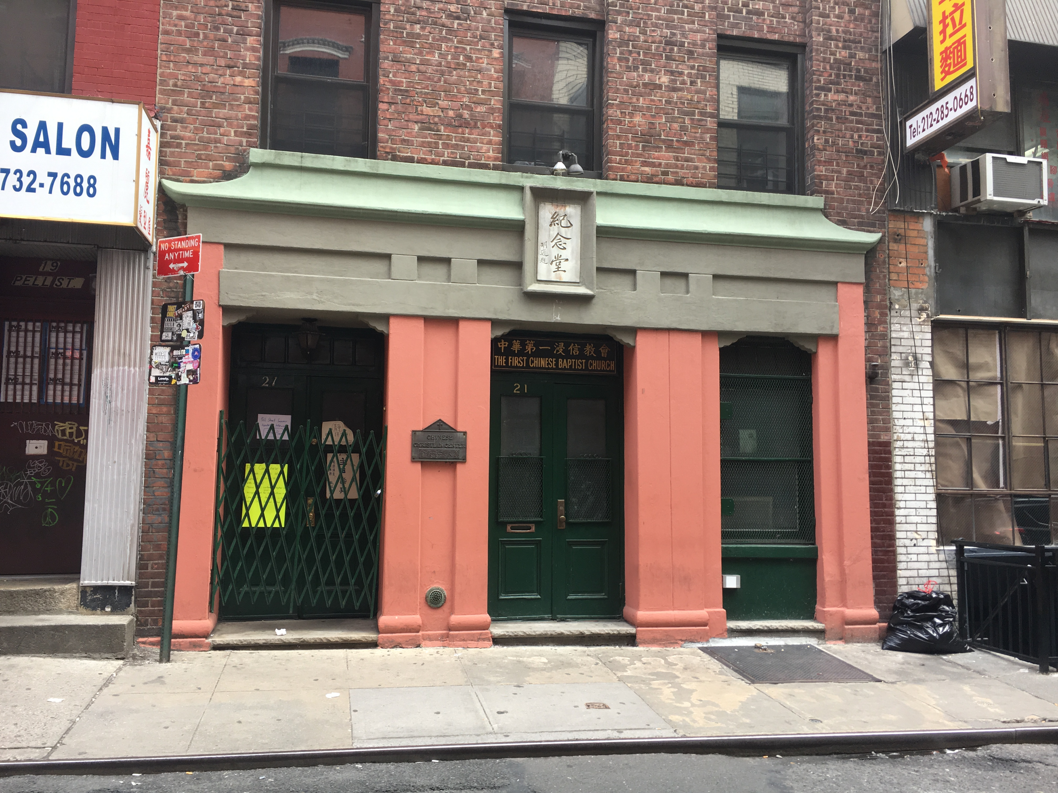 First Baptist Church in Chinatown, Manhattan at 21 Pell Street. Founded at this location by Mabel Ping-hua Lee